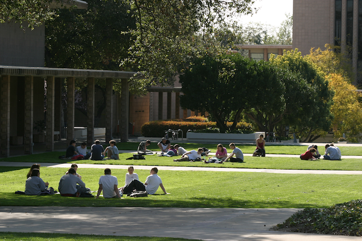 Students learn in an outdoor class on Harvey Mudd College campus.